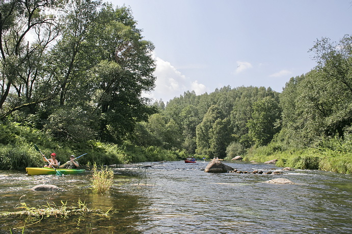 Rocky Širvinta River stream near Upninkai, Lithuania. Kayak enthusiasts often travel along it.